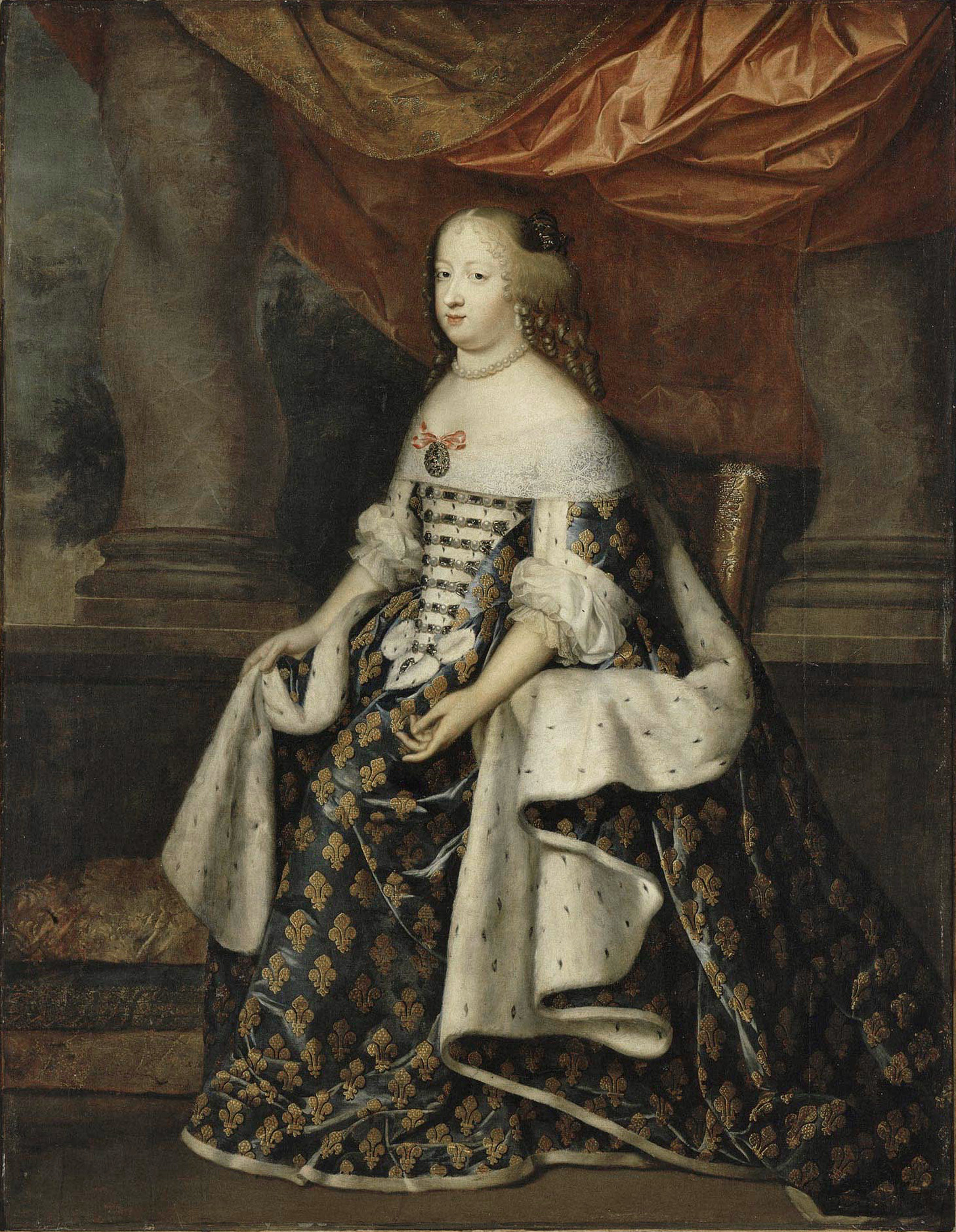 Portrait of Maria Theresa of Austria (1638-1683) as Queen of France